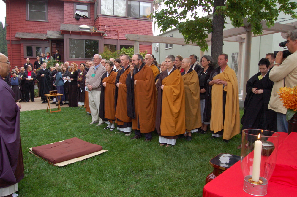 Zen Center of Los Angeles 40th anniversary; comprised of many teachers in the White Plum Asanga